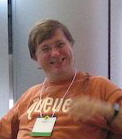 Closeup of Eric Allman at a free software conference.